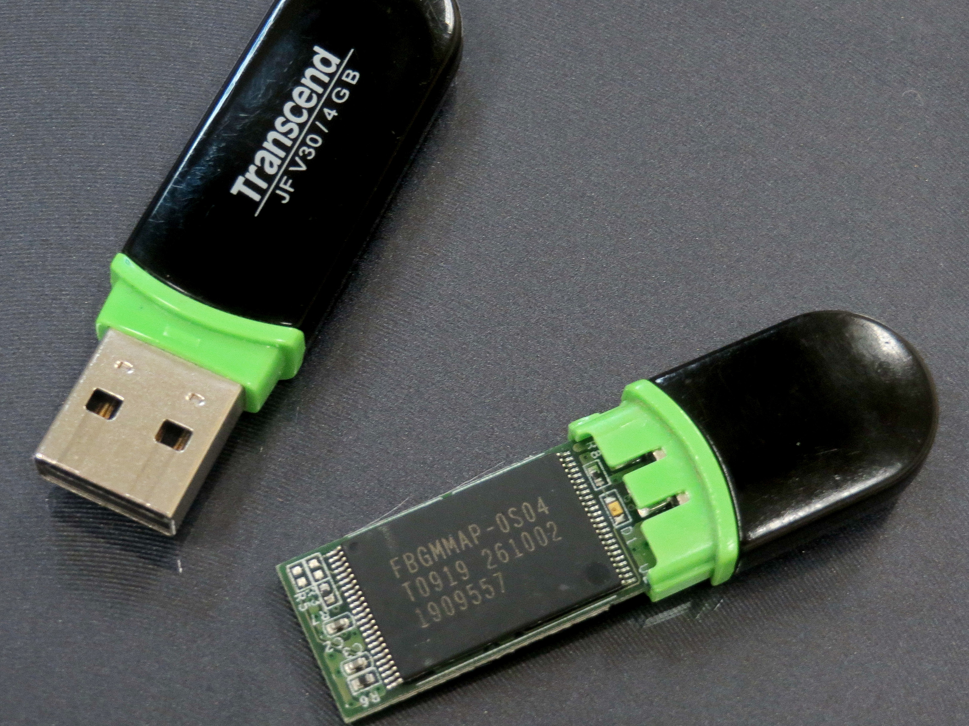 USB key, Transcend JF V30, 4GB.